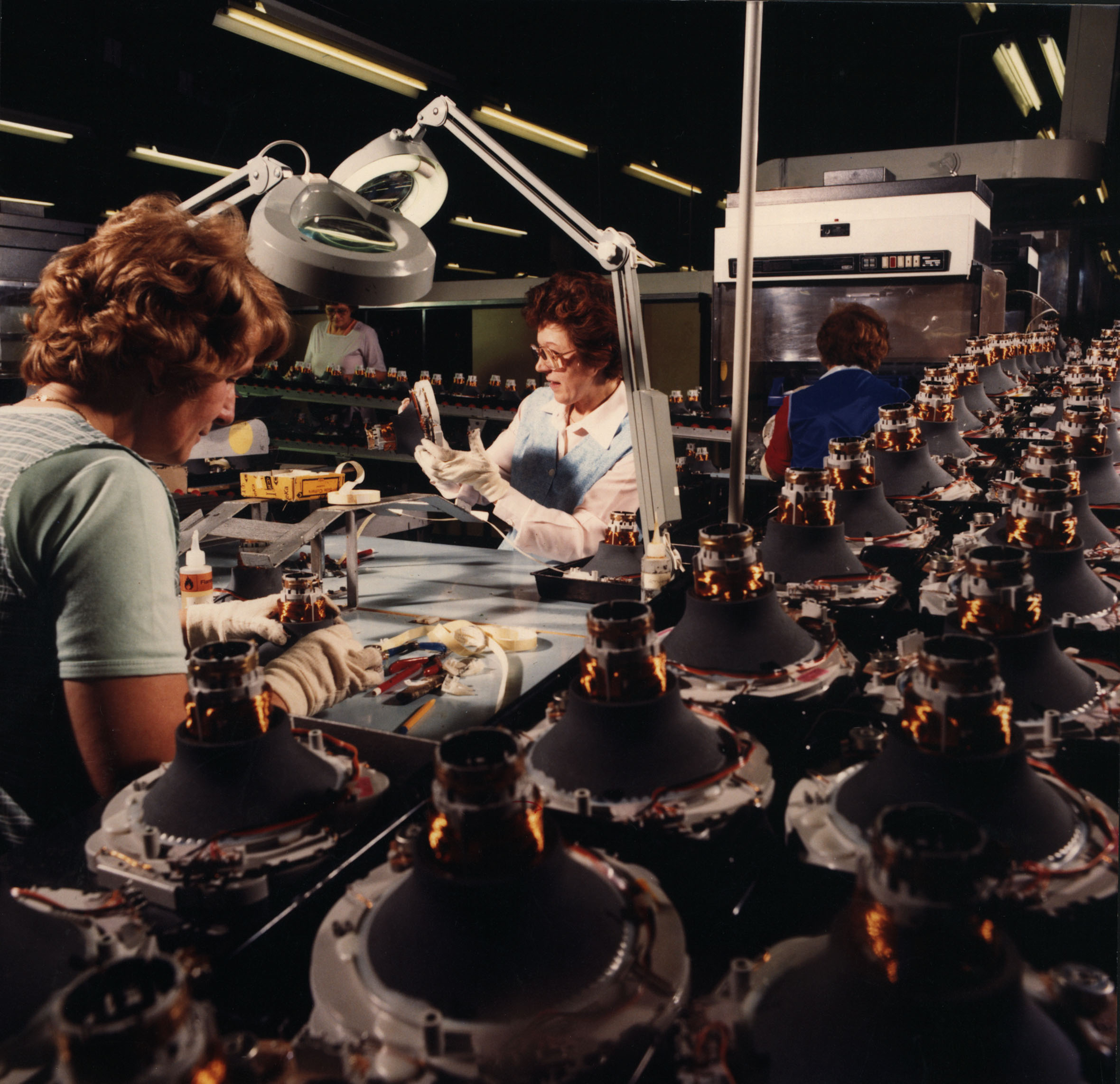 This is a photograph of Women working at the Philips Factory in Washington, UK. The photograph was taken at some point in the 1970's. Reference: 5417/353/5 This collection of images has been assembled in support of the Washington Heritage Festival 2013. The celebration of Washington brings together a variety of different themes. Washington is a Town in the City of Sunderland, Tyne & Wear. It is traditionally associated with Coal Industry, and notably known as the home of the Washington Family, ancestors of the First President of the United States George Washington. However, in 1964 Washington was designated a New Town and drastically changed. With the introduction of new industry such as the Nissan Car Factory, Washington experienced a huge redevelopment in both its economy and community. These Photographs are taken from the Records of the Washington Development Corporation; held at Tyne & Wear Archives. The records document this change in industry, landscape and community in Washington between 1964 & 1988, and consist of many photographs. For more information on the Washington Heritage Festival, 21st September 2013 please click (Copyright) These images are Crown Copyright. We're happy for you to share these digital images within the spirit of The Commons. Please cite 'Tyne & Wear Archives & Museums' when reusing. Certain restrictions on high quality reproductions and commercial use of the original physical version apply though; if you're unsure please